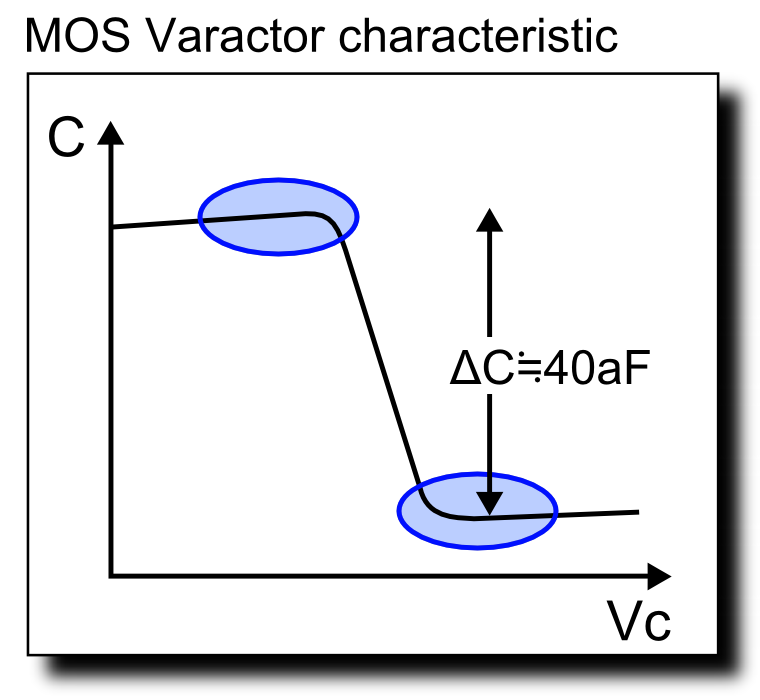 All Digital PLL MOS Varactor characteristic